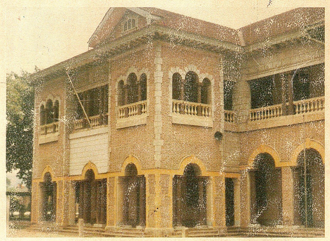 Maxwell School, 1984